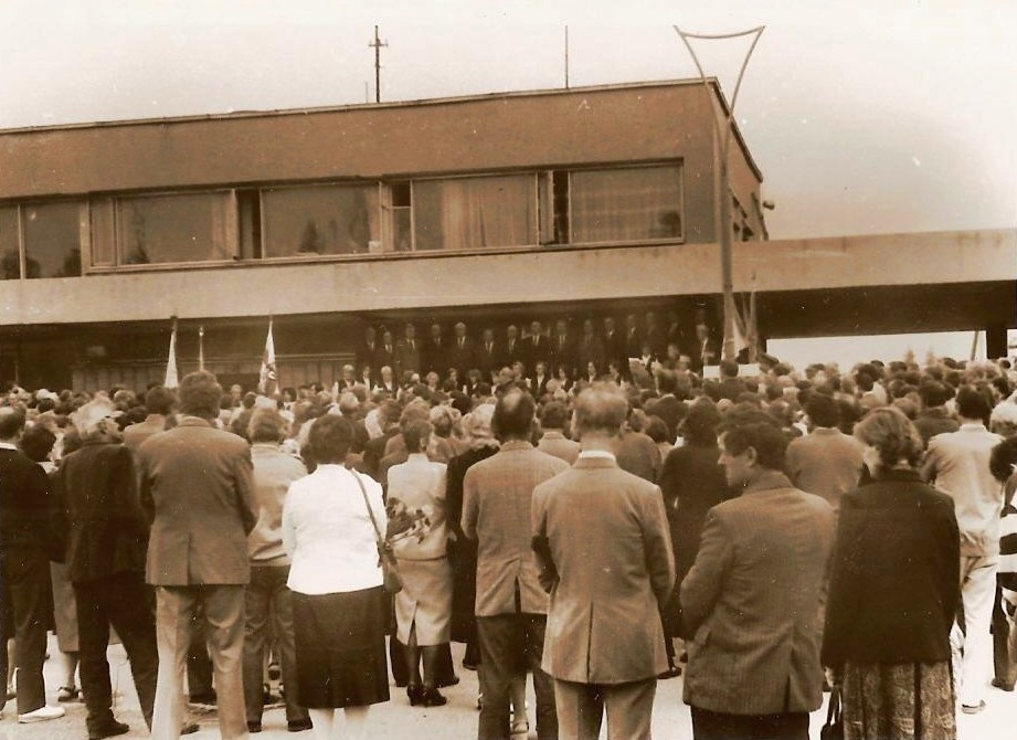 Every year on 14 June. former exiles notes 14 June 1941. deportation pradžią. 1989 year. June 14. Panevezys railway station on the railroad tracks placed flowers, sang in captivity.